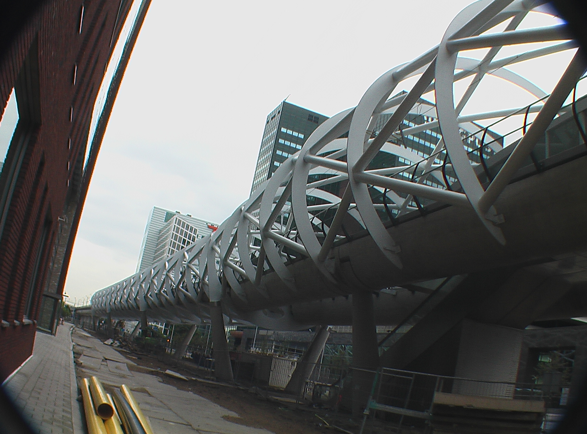 RandstadRail Den Haag (The Hague) Nederland (The Netherlands)